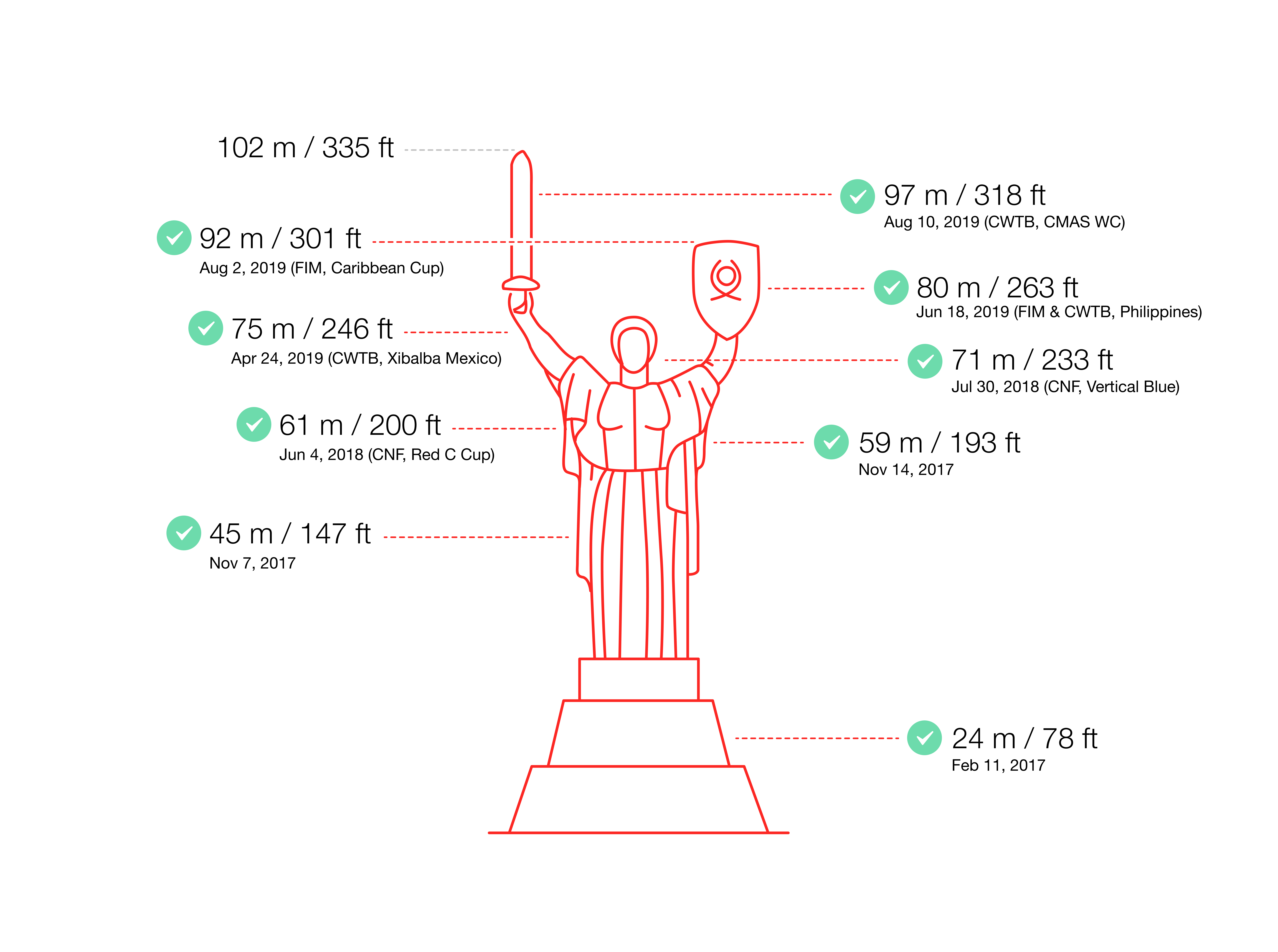 Visualizing of Andriy Khvetkevych records